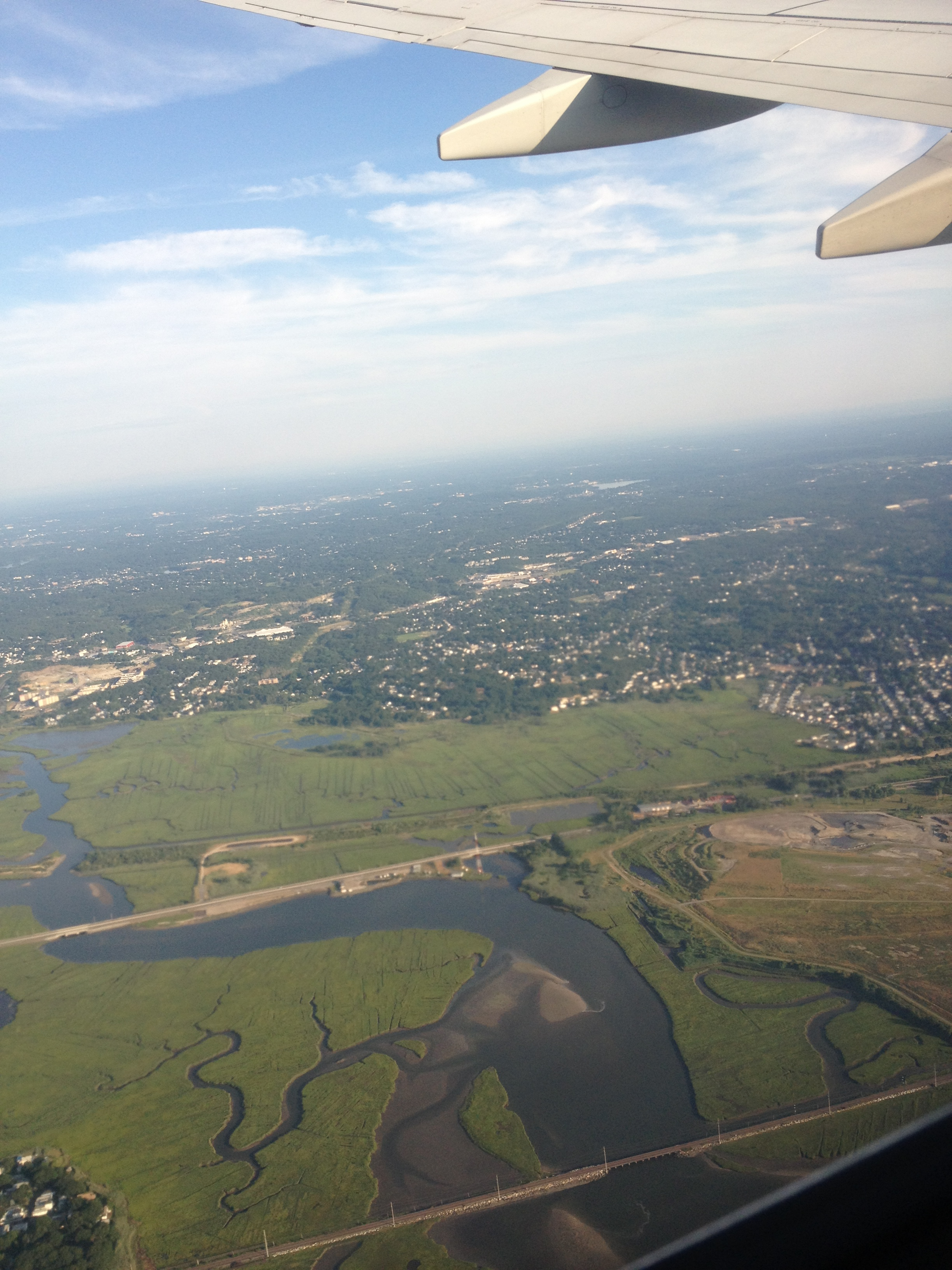 Location of the former Franklin Park and Saugus Field.